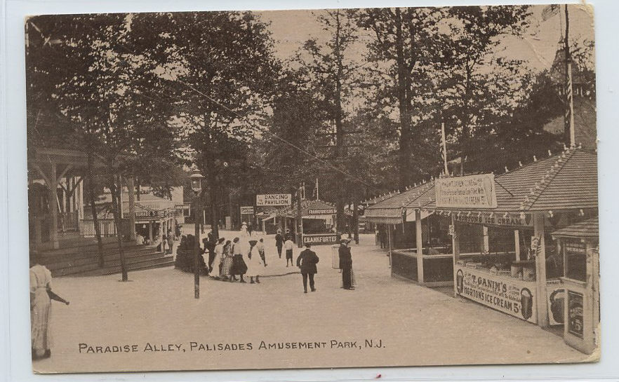 Palisades Amusement Park, early 20C (historic photo)